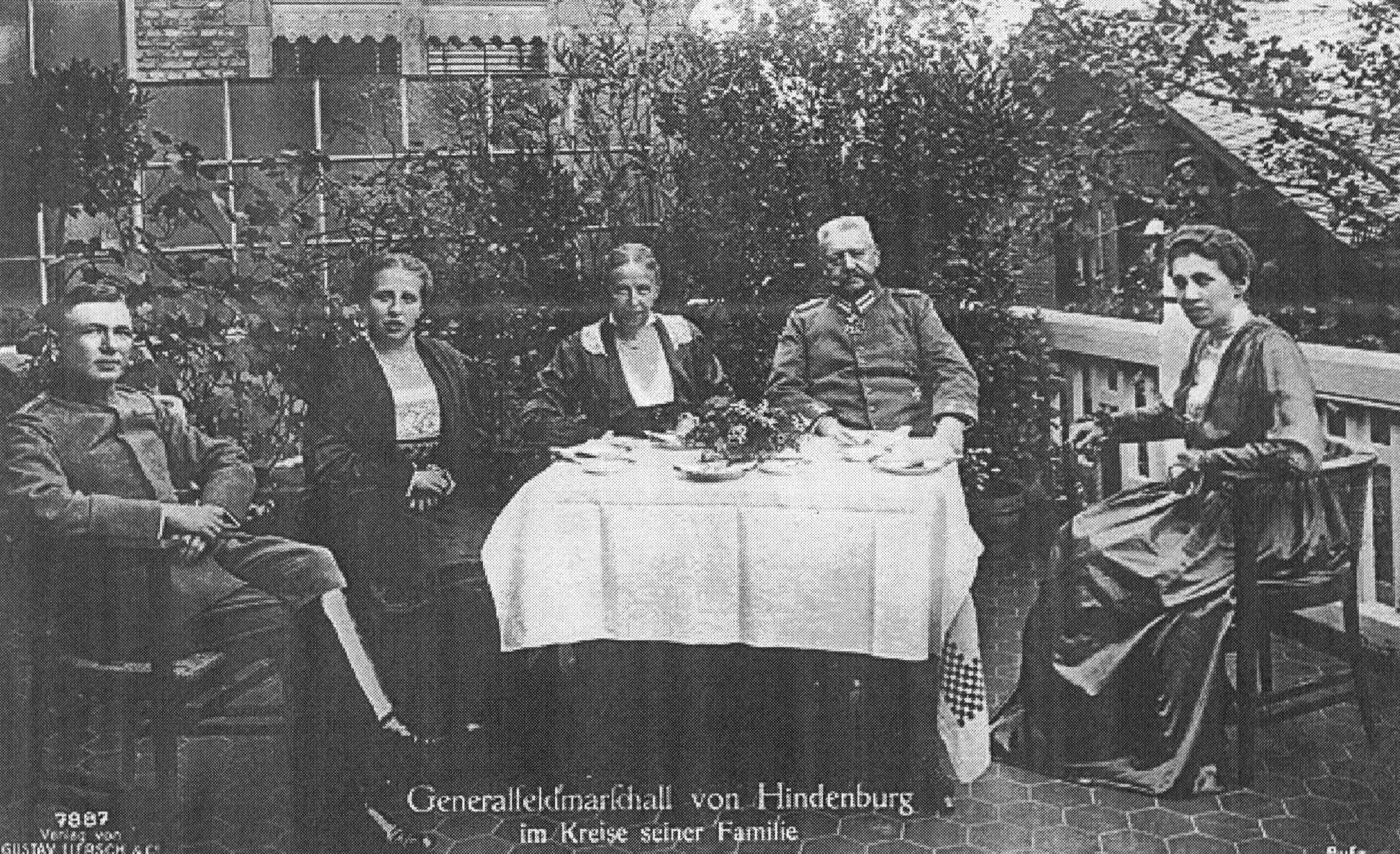 German Field-Marshall Paul von Hindenburg gathered with his family on the occasion of his 70th birthday in 1917. Left to right: Hindenburg's son in law Christian von Pentz, Annemarie von Pentz (née Hindenburg), Mrs. von Hindenburg, Hindenburg, irmengard von Brockhusen (née Hindenburg).